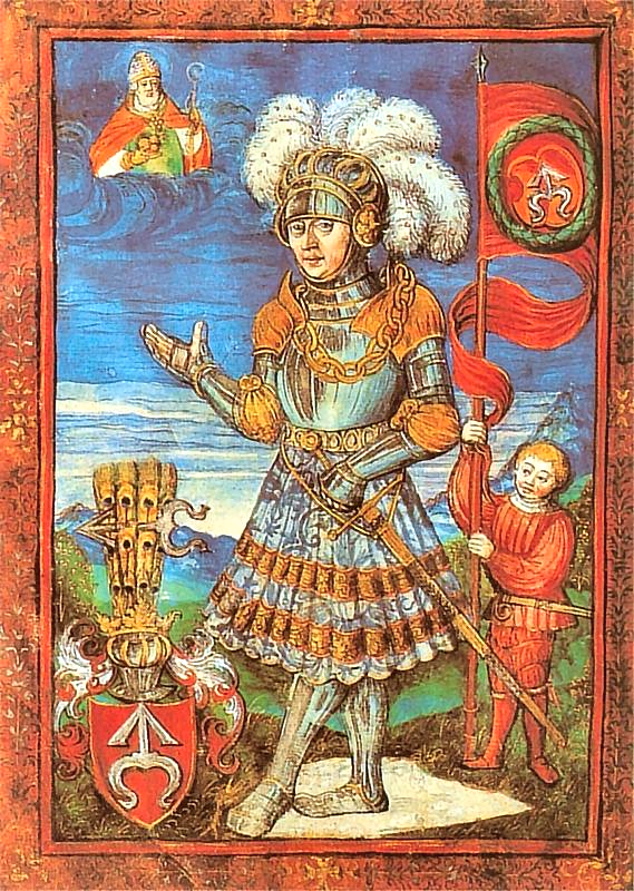 Mikołaj Szydłowiecki the Younger